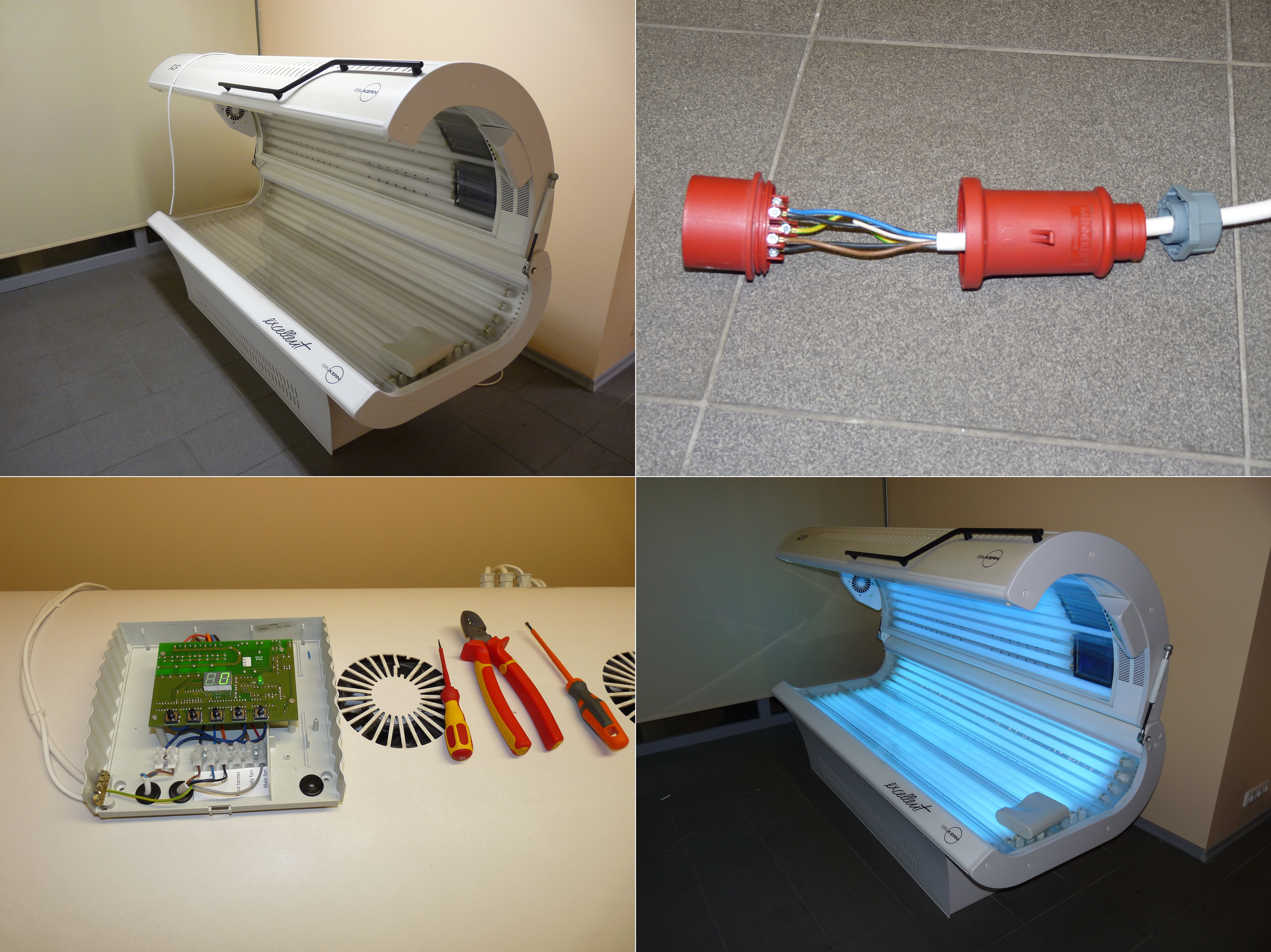 Fixing of the tanning bed.